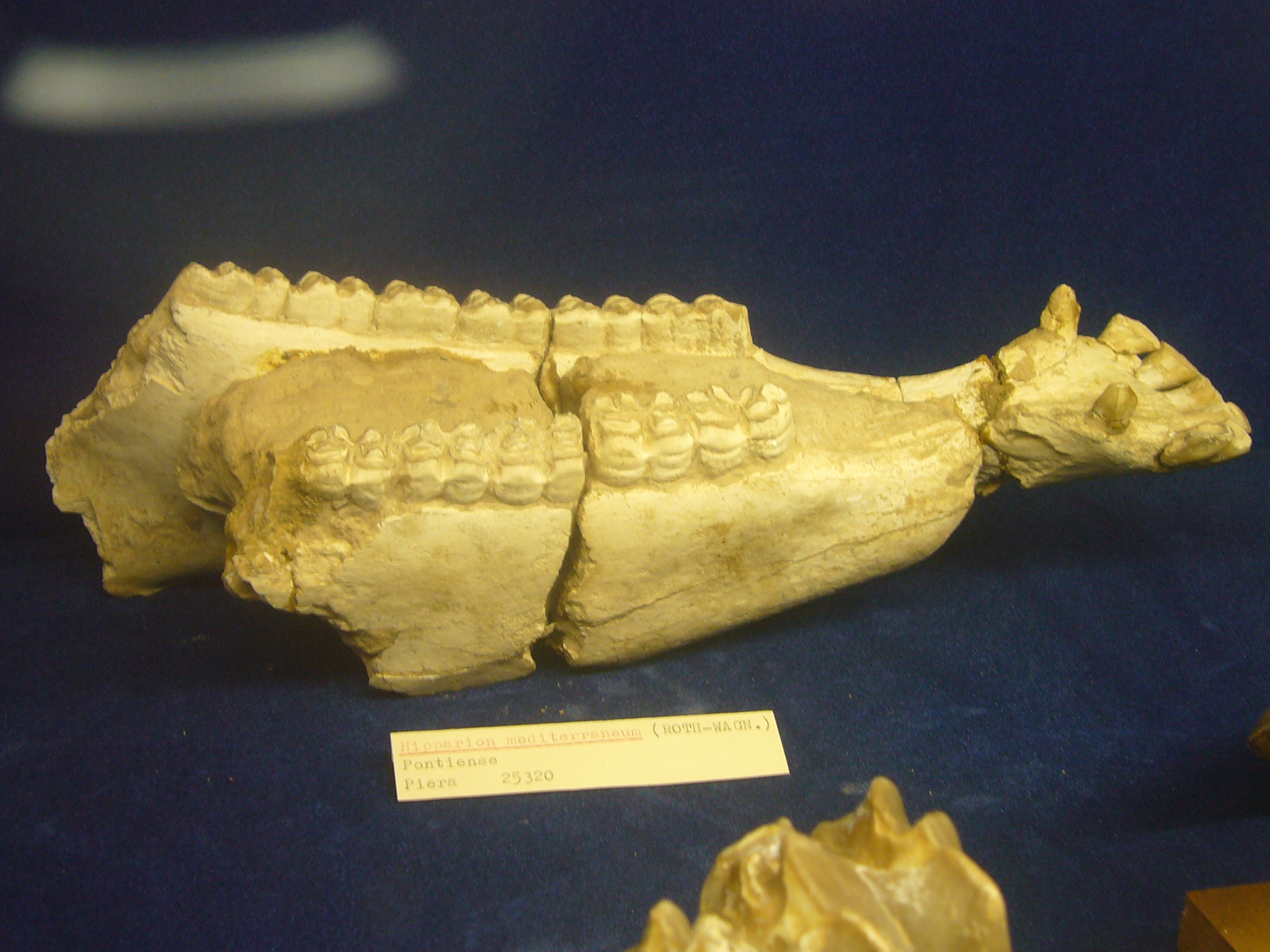 Hipparion Mediterraneum. Fossils. Collection of paleontology of the Geological Museum of the Barcelona Seminari (Museu Geològic del Seminari de Barcelona).